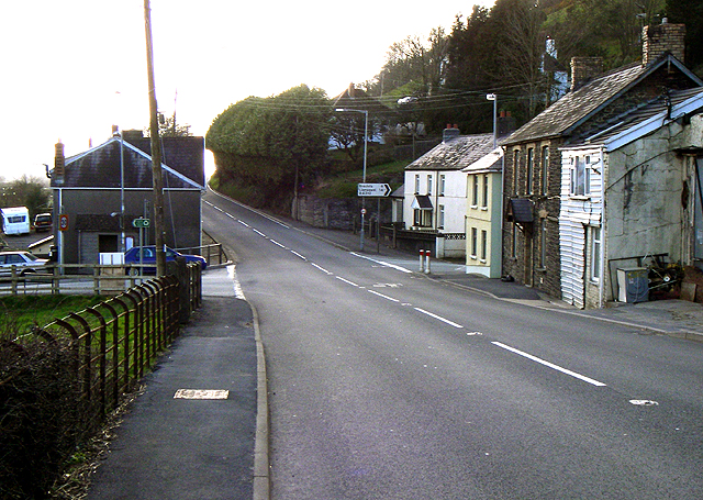 Nantgaredig. The A40 going through Nantgaredig.